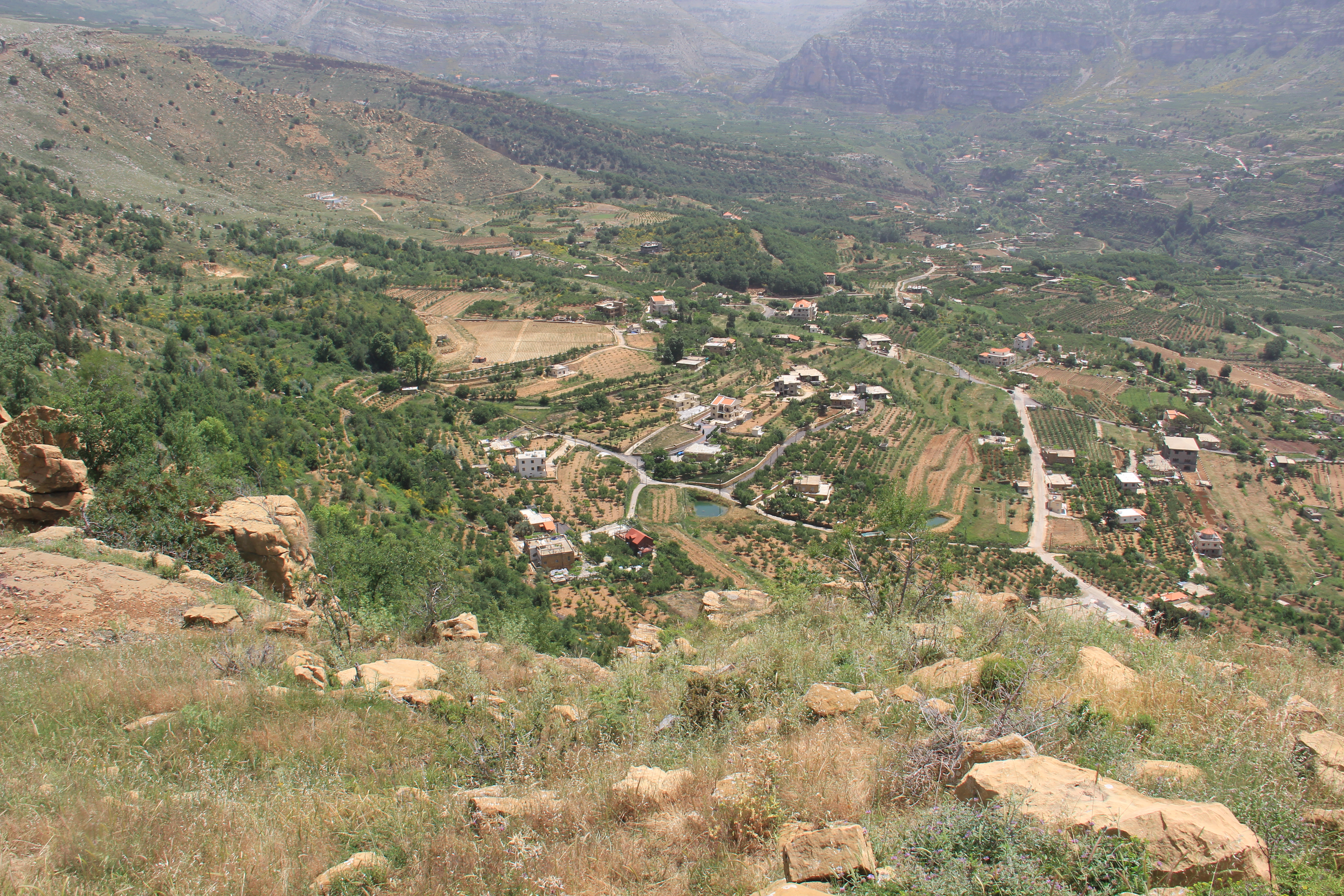 المغيري كما بدت مايو-2016 من اعالي جبل سرغل